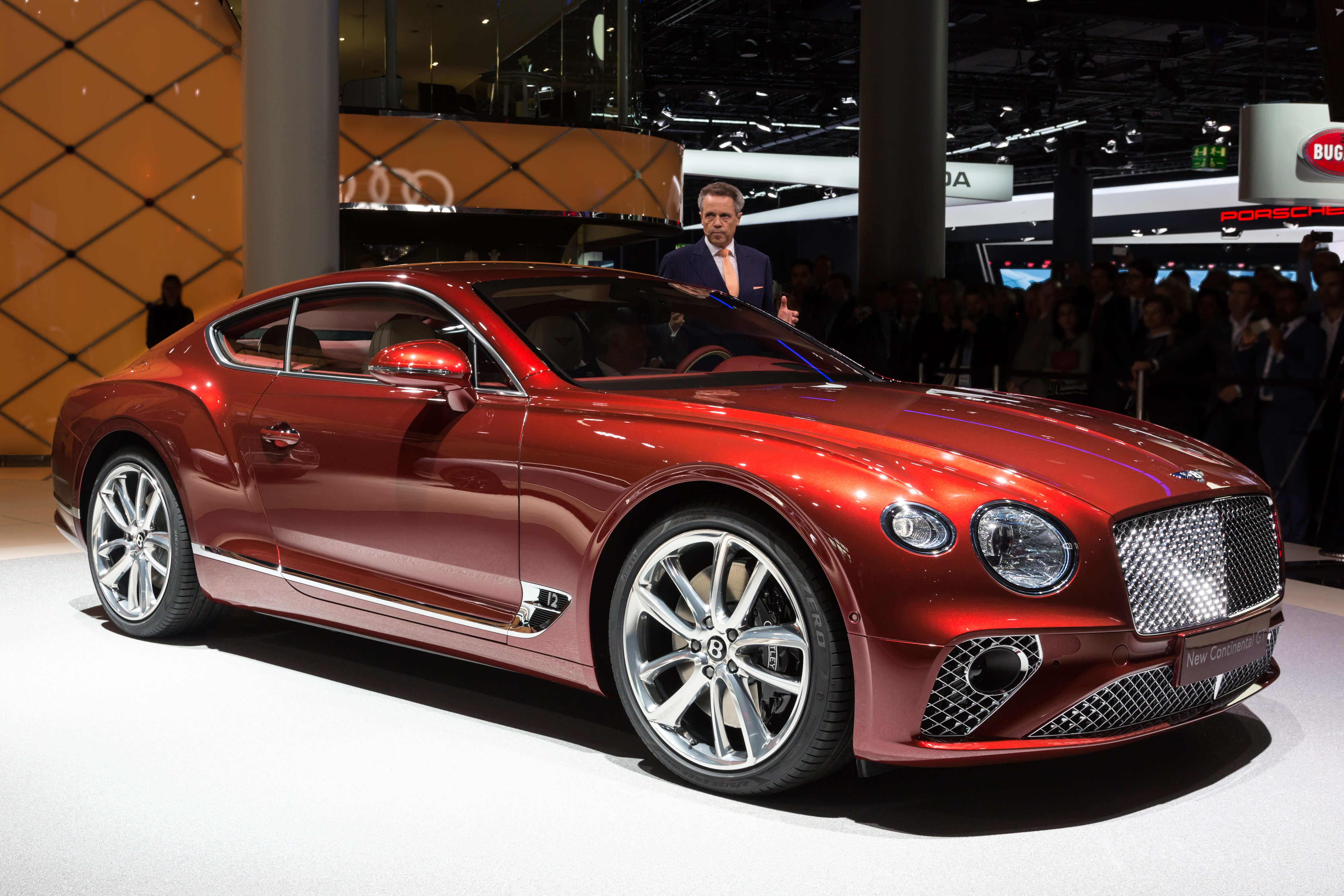 Wolfgang Dürrheimer presents the new Bentley Continental GT at IAA 2017